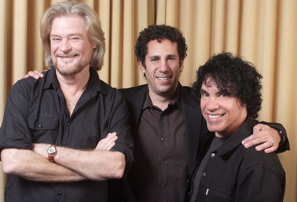 Jonathan Wolfson (TV Producer / Manager) with musical act Hall & Oates